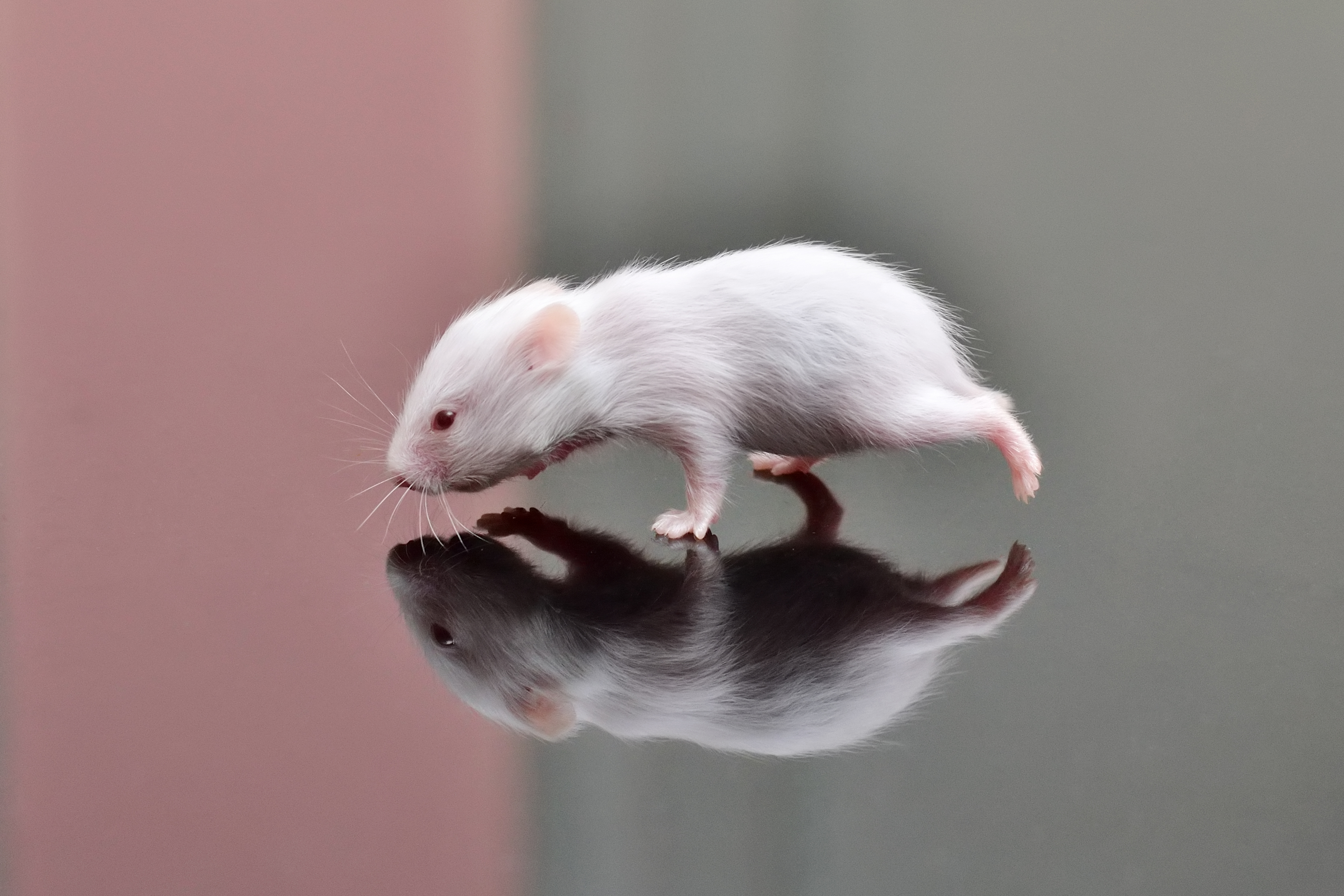 2 weeks old baby hamster with red eyes.